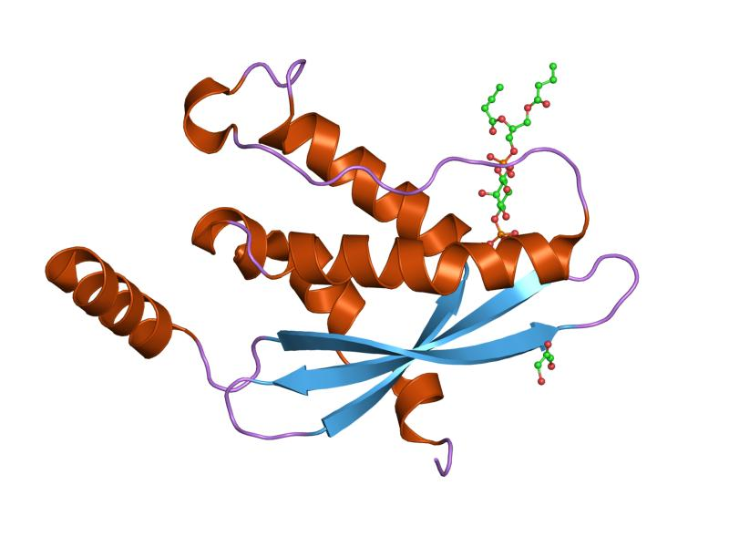 Cartoon representation of the molecular structure of protein registered with 1h6h code.